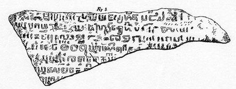 Detail from a drawing of three fragments from a sandstone block that once stood at the Singapore River mouth, showing the fragment called the Singapore Stone which is now in the National Museum of Singapore.